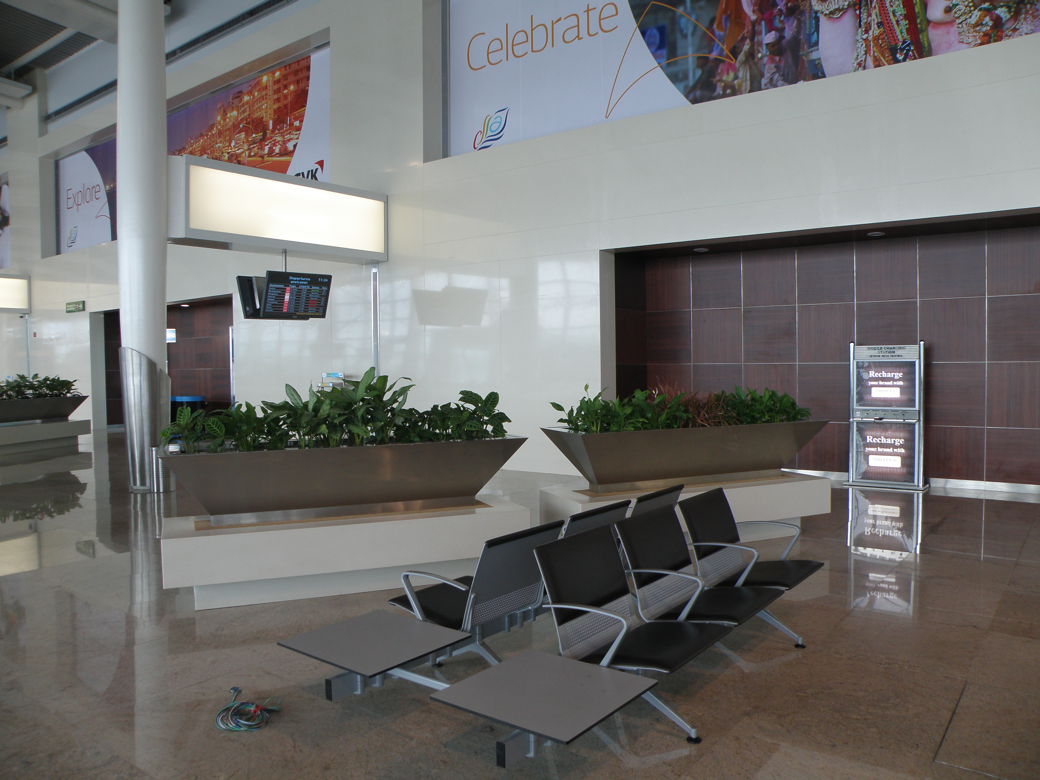 Domestic departure terminal 1C of Chhatrapati Shivaji International Airport